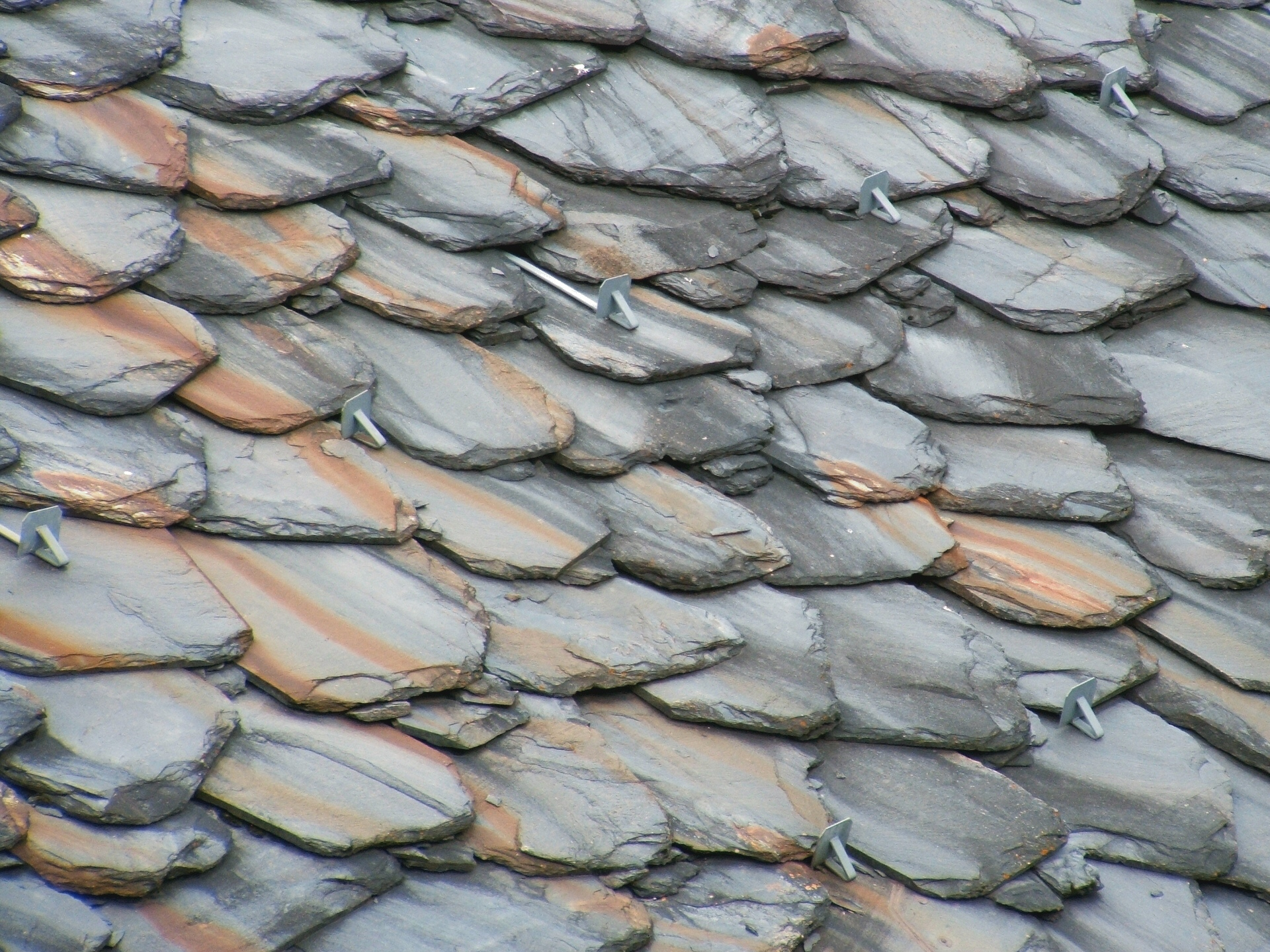 Slate roof